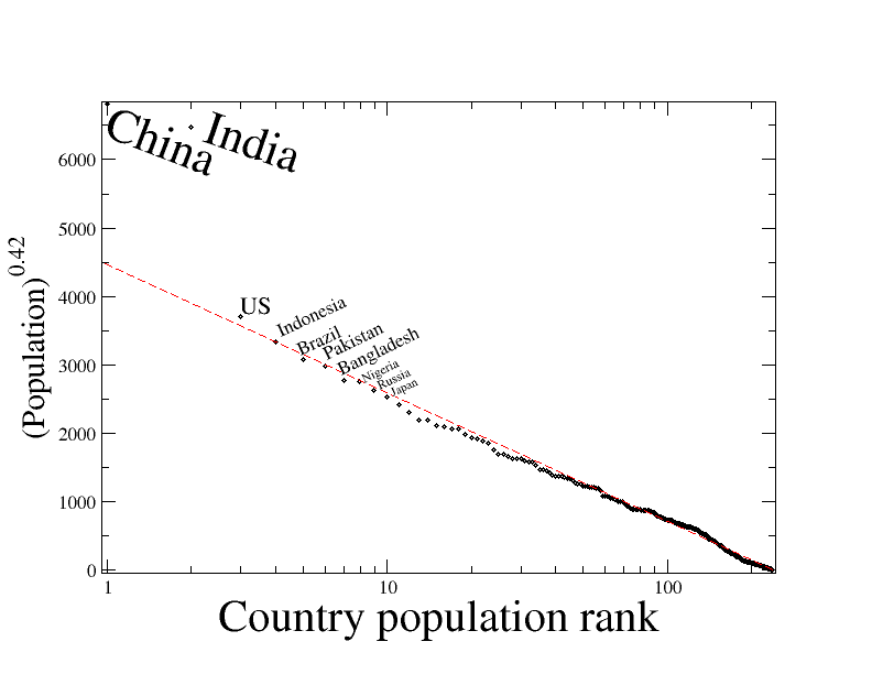 A rank-ordering of the 237 countries listed here. Rescaling the 2011 population allows most countries to be fit by a stretched exponential distribution (estimated by eye here), which shows as a straight line on the semi-log plot shown here. Note that China and India do not fit on this line due to the King effect.